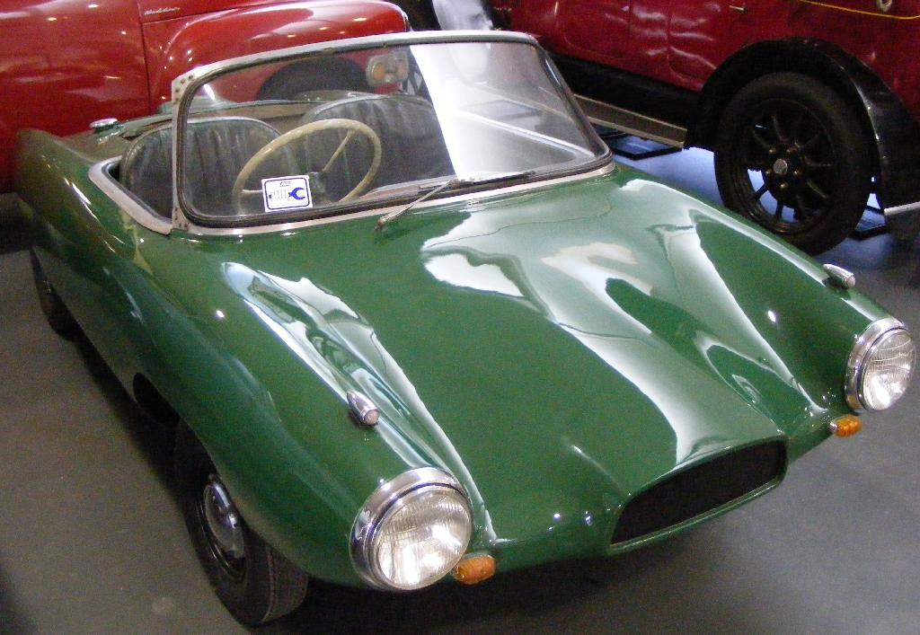 The South Australian built Zeta Sports, on display a the national motor museum in Birdwood South Australia